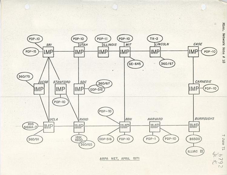 ARPANET Diagrams in April 1971.